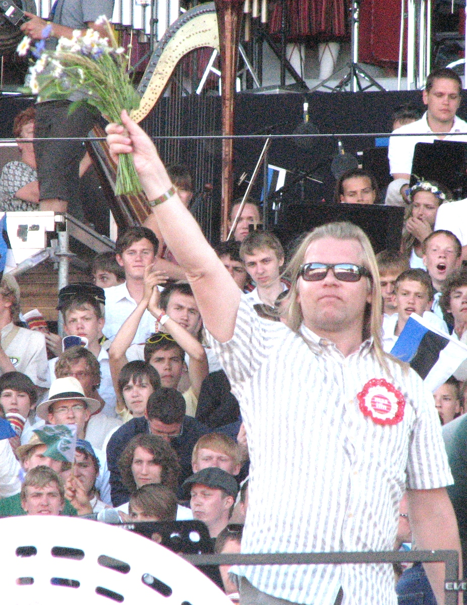 Estonian musician Heini Vaikmaa in XI Youth Song and Dance Celebration